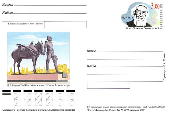 Pre-stamped postal card "175th anniversary of Semenov Tian Shan Shanshskyi". Date of issue: 24.09.2002.